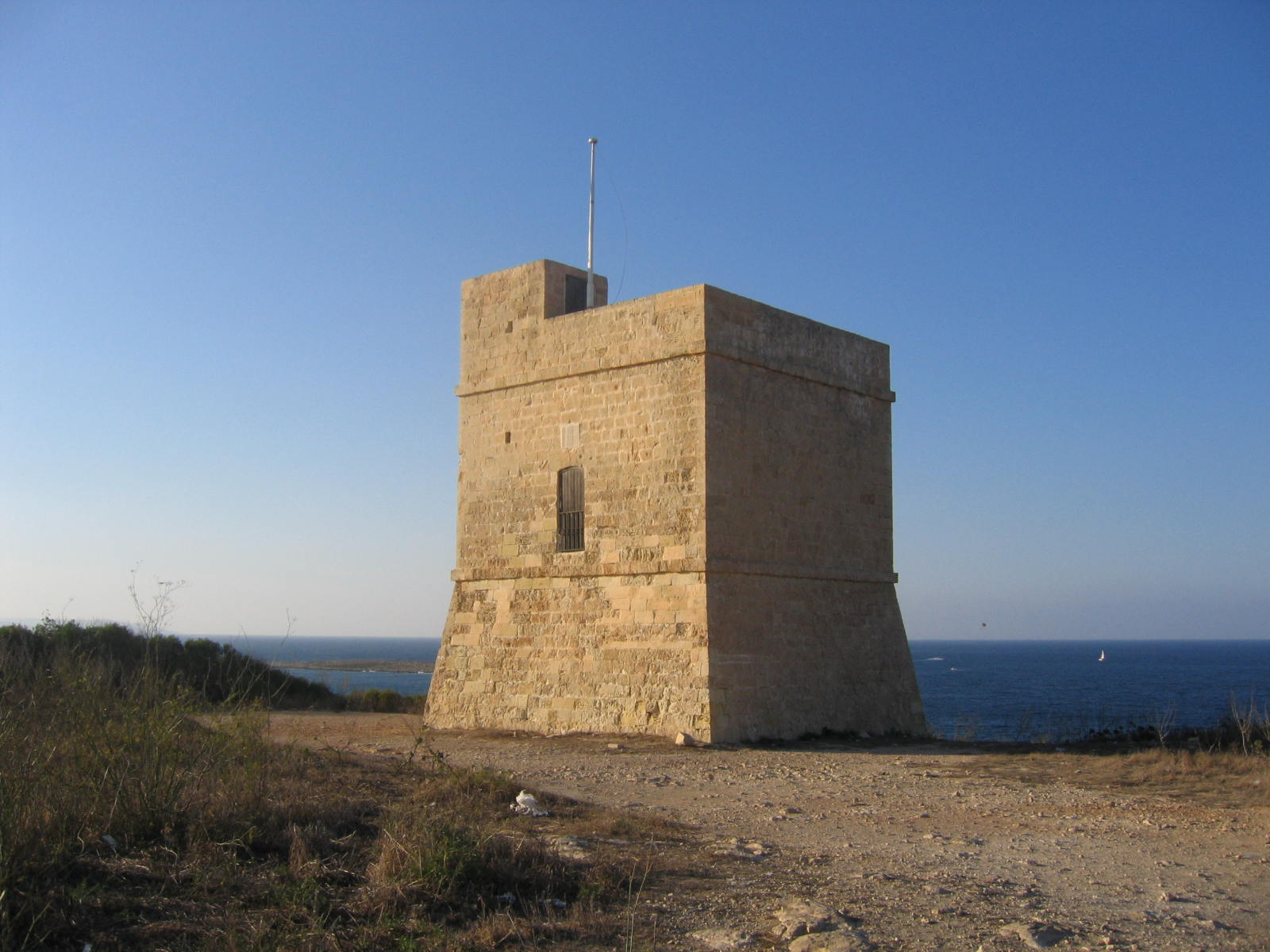 Ghallis tower from Shoreward. Near Bugibba, Malta Copyright H.J.Moyes Sept 2005. All rights reserved